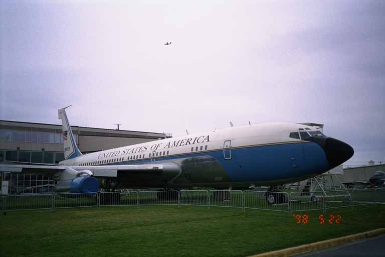 A former US President airplane, VC-137B or Special Air Missions 970 sits at the Museum of Flight, Seattle, on load from the National Air Force Museum. It was called as "Air Force One" when a president was onboard. It is a specially built Boeing 707-120 serial 58-6970, which was inservice 1959-1996.